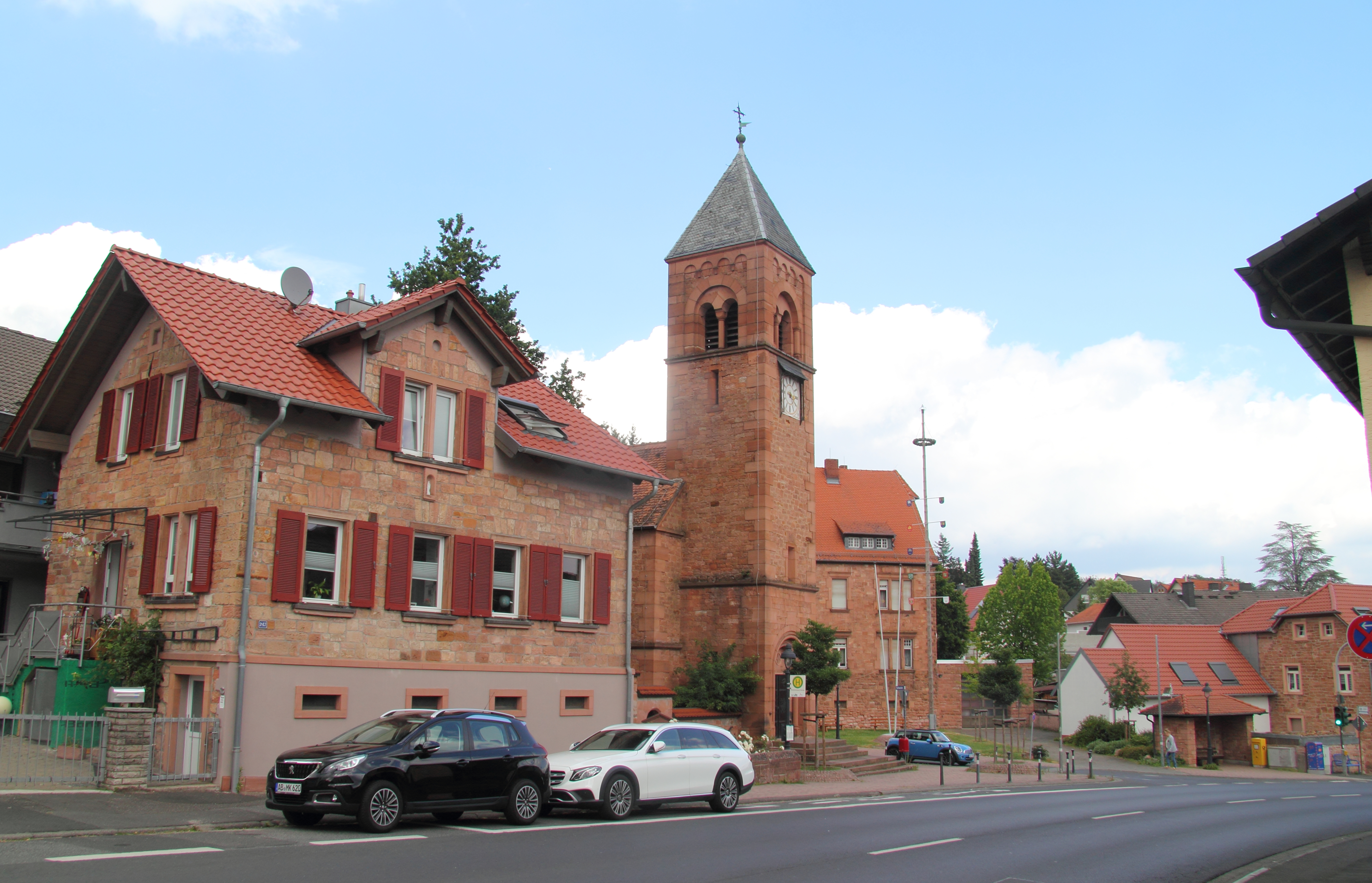 Bavaria, Germany: Grünmorsbach, part of the community of Haibach, Lower Franconia in the Aschaffenburg district